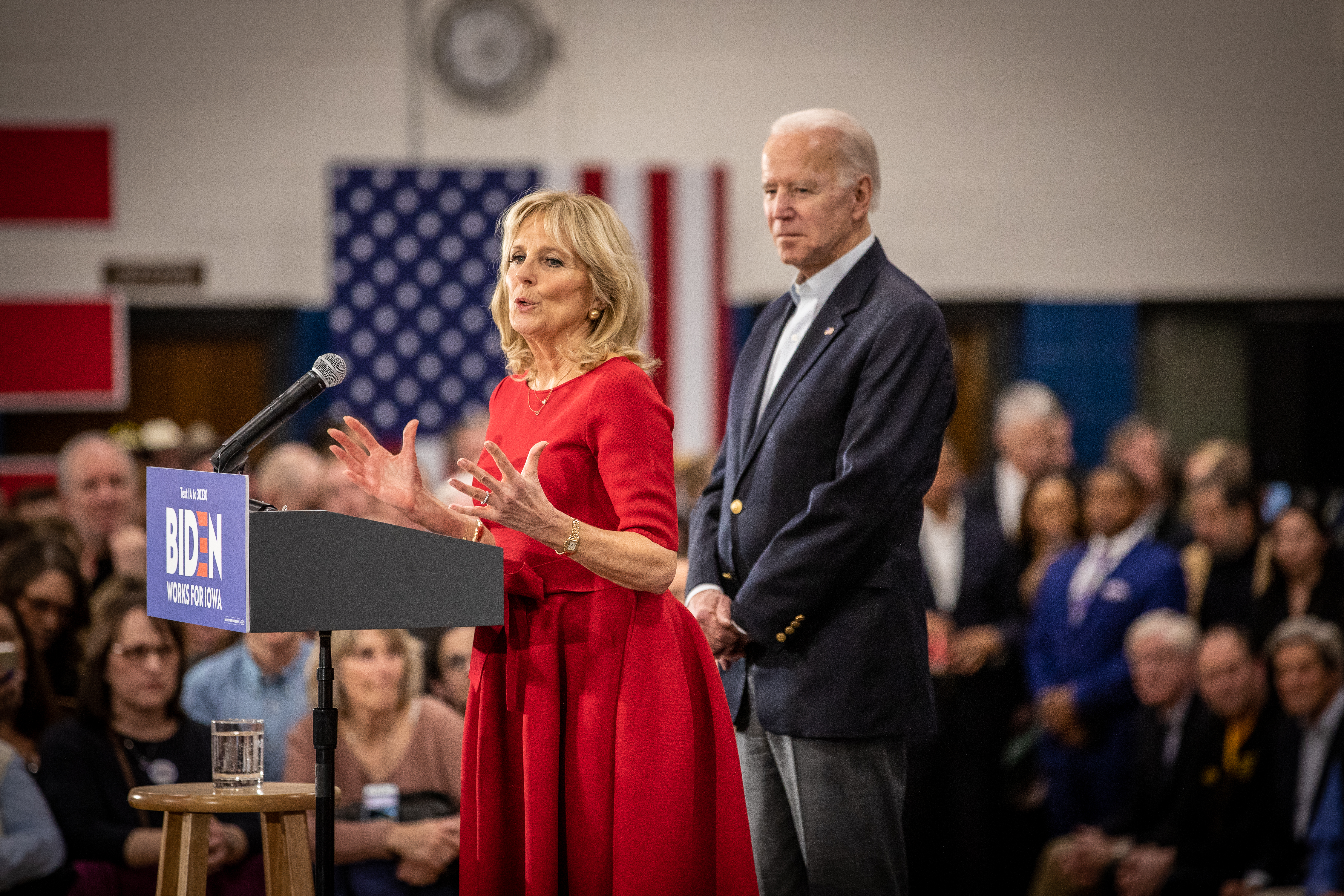 On the eve of the Iowa caucuses, Vice President Joe Biden holds a campaign rally at Hiatt Middle School.